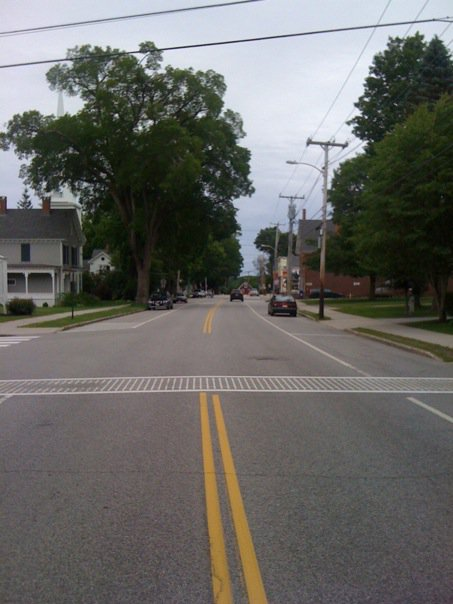 A deserted Main Street in Yarmouth, Maine. Photo taken by Dudesleeper on June 6, 2004.